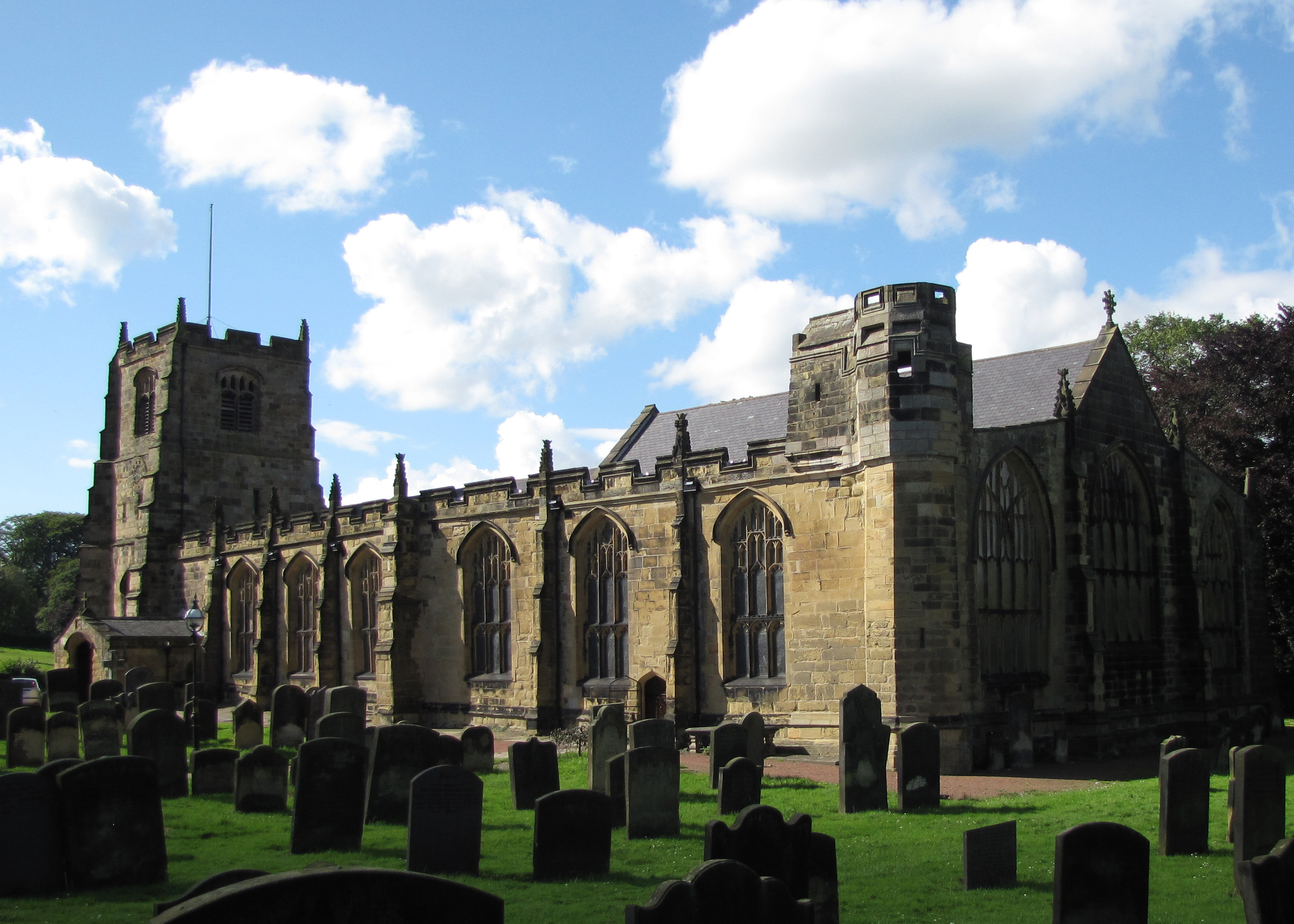 St Michael's church in Alnwick, Northumberland, England. A Grade II listed building.